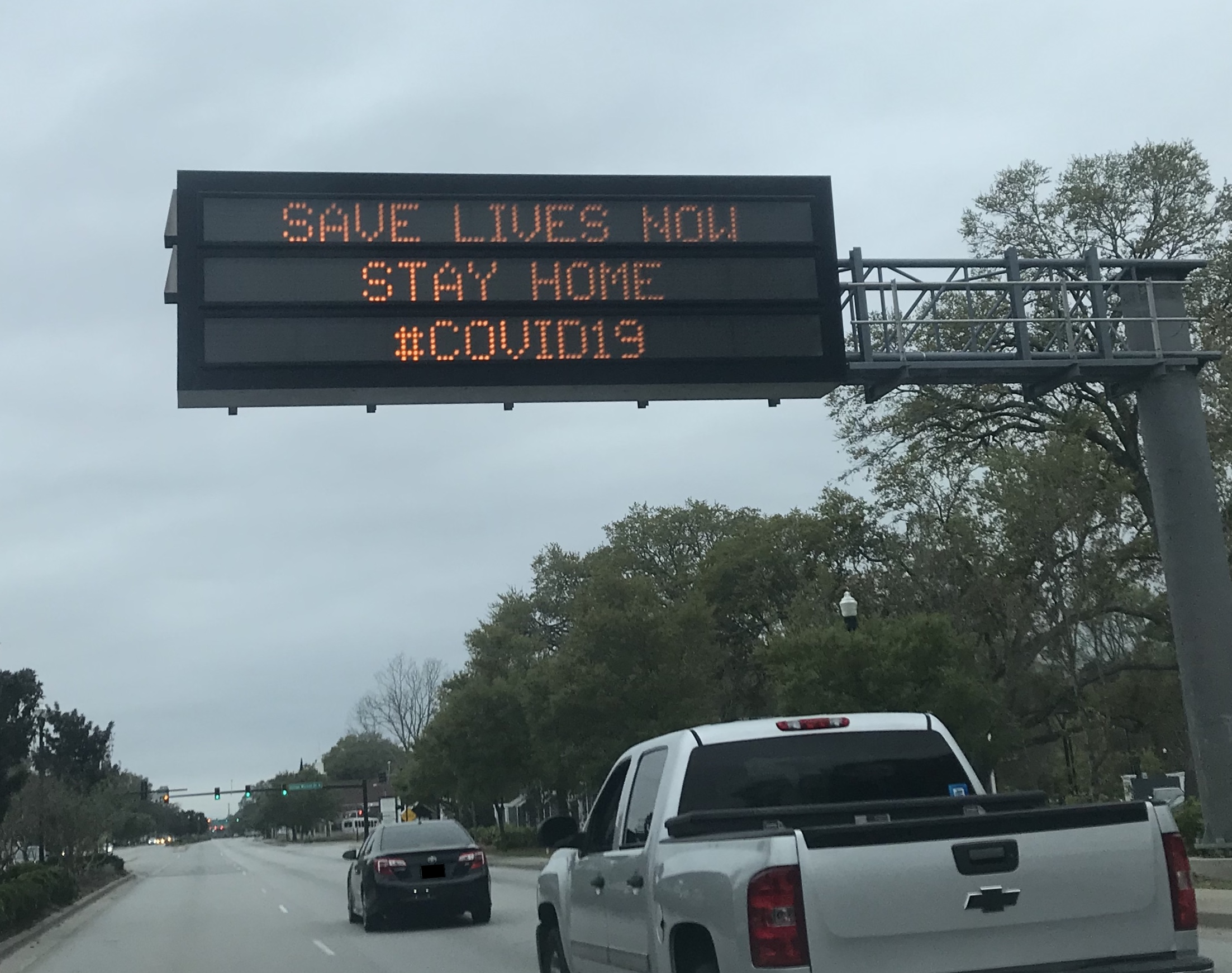 Traffic warning in Mount Pleasant related to the 2020 coronavirus pandemic in South Carolina. Pictured on 22 March 2020.